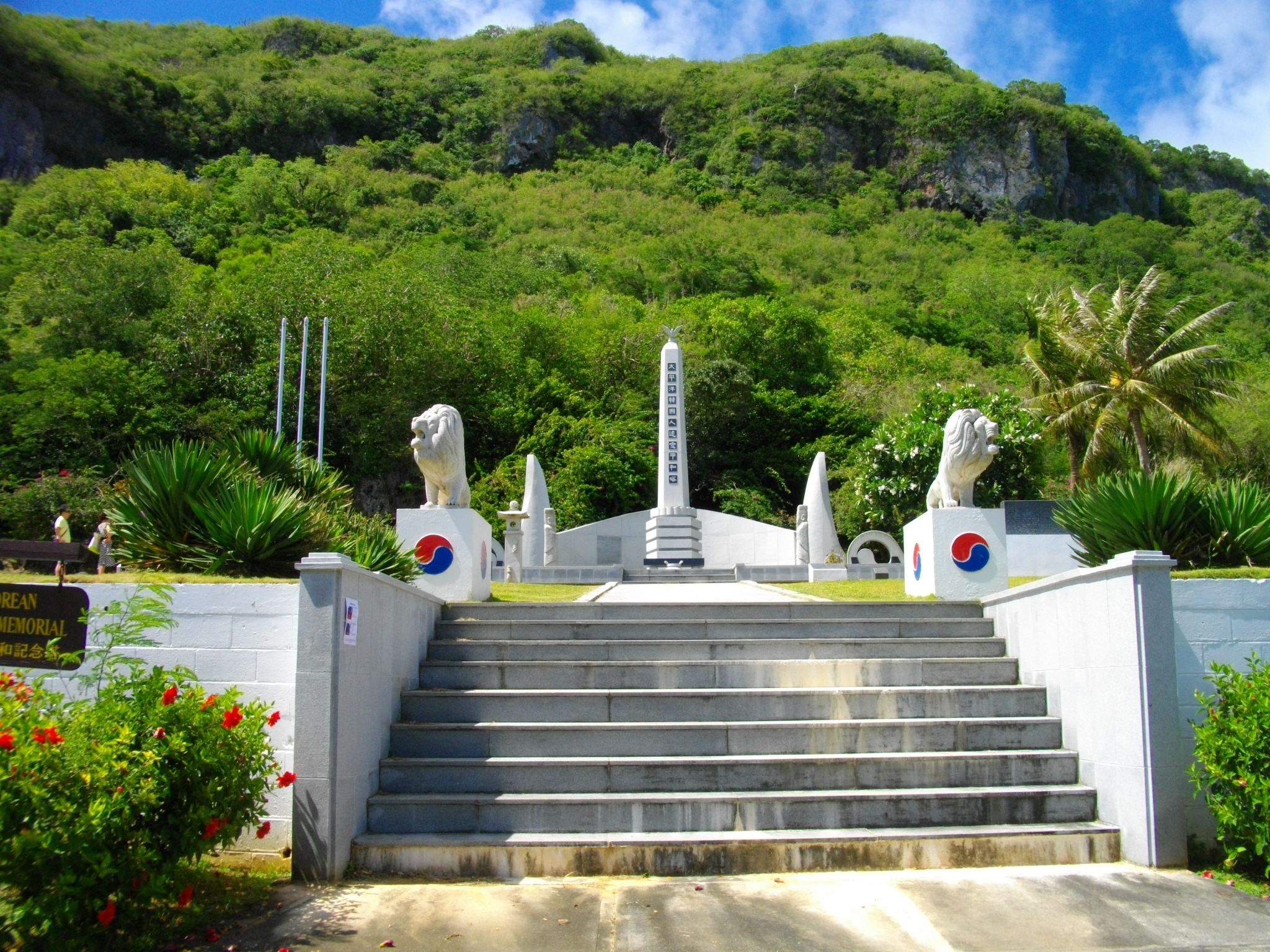 Korean Peace Memorial in Saipan